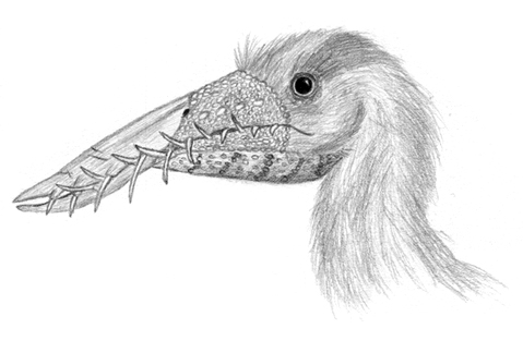 Life restoration profile of the Late Jurassic pterosaur Rhamphorhynchus muensteri, based on a mid-sized (~3 year old) specimen.